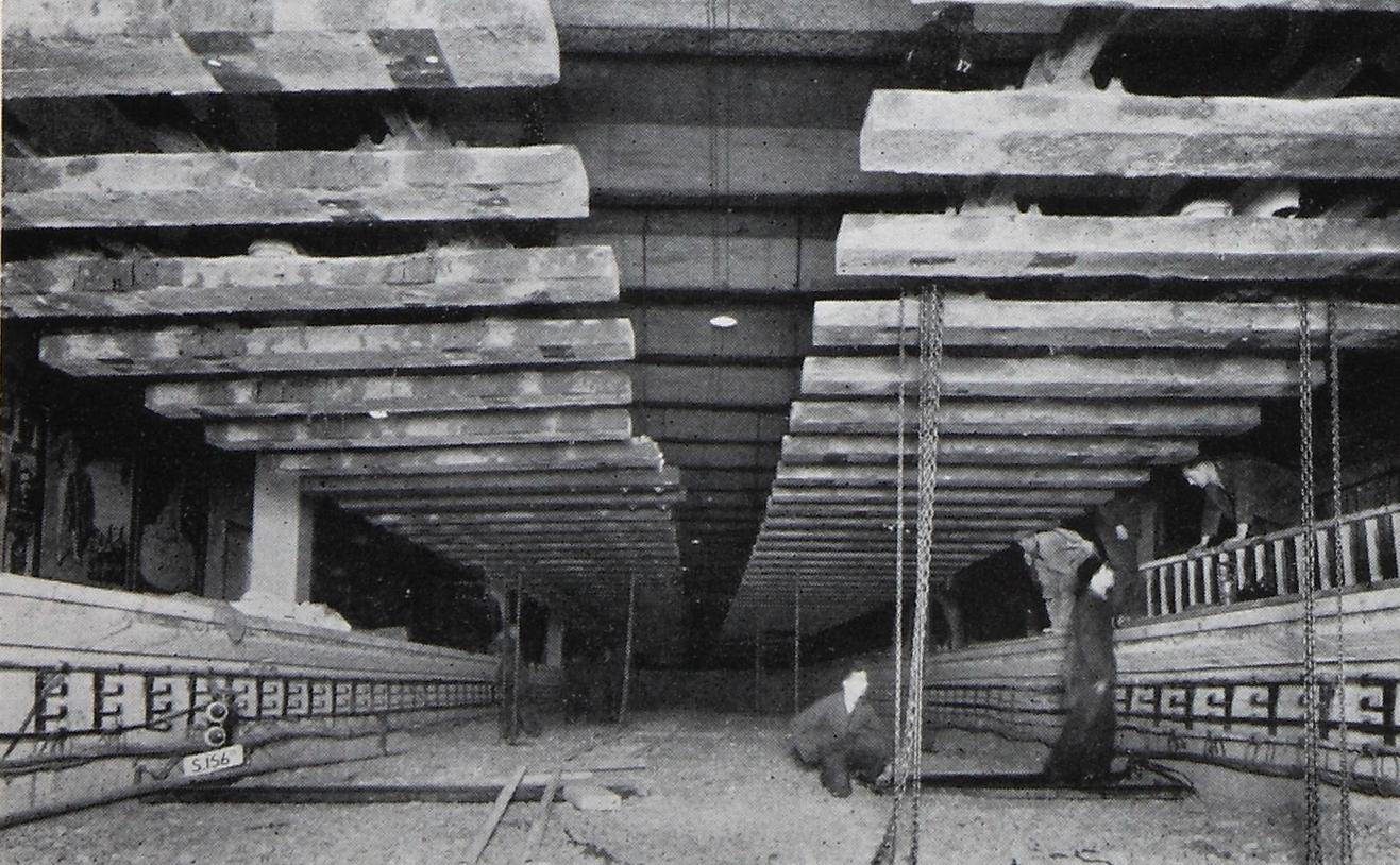 Our Catalogue Reference: ZSPC 11/256 Description: The tracks suspended from the roof after removal of the trestles and ready for lowering to their new level Date: c 1946 Images reproduced by permission of London Transport Museum © Transport for London